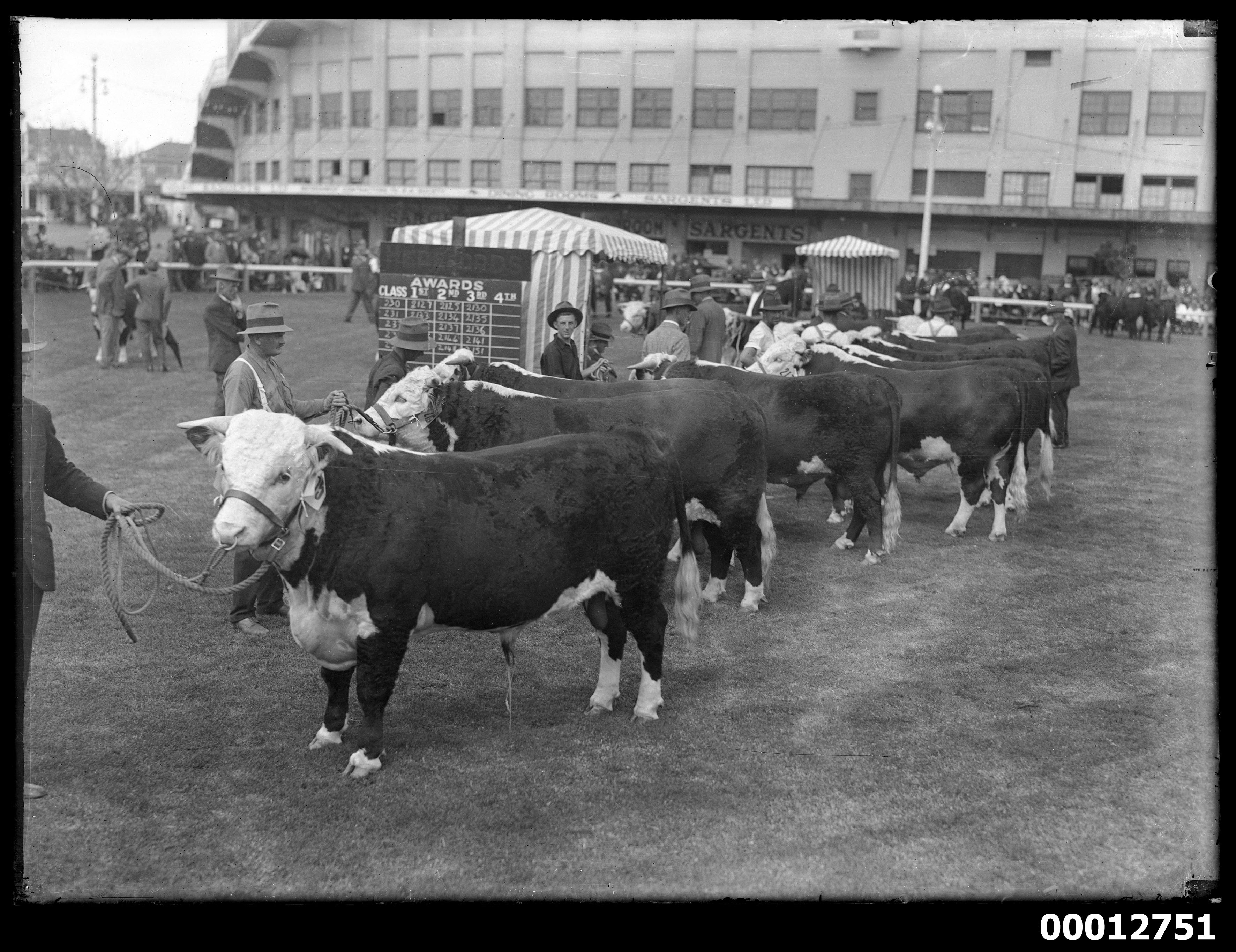 This photo is part of the Australian National Maritime Museum’s William Hall collection. If reproduced or distributed, this image should be clearly attributed to the collection of the Australian National Maritime Museum; and not be used for any commercial or for-profit purposes without the permission of the museum. For more information see our Flickr Commons Rights Statement. The Australian National Maritime Museum undertakes research and accepts public comments that enhance the information we hold about images in our collection. If you can identify a person, vessel or landmark, write the details in the Comments box below. Thank you for helping caption this important historical image. Object number 00012751